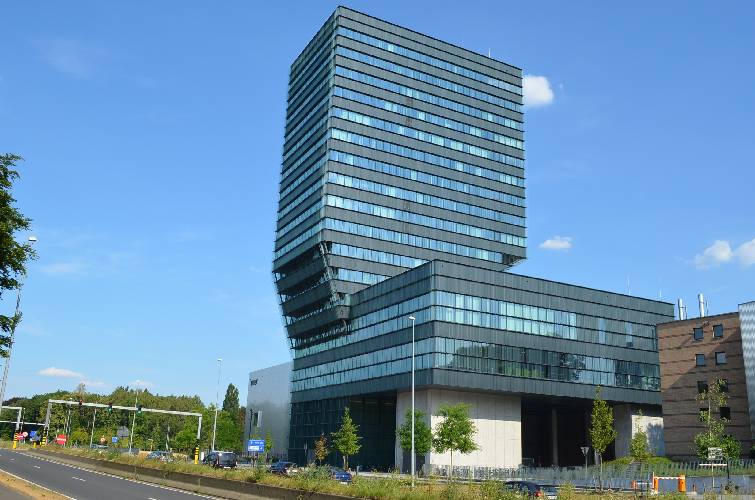 IMEc Headquarters Leuven, Belgium